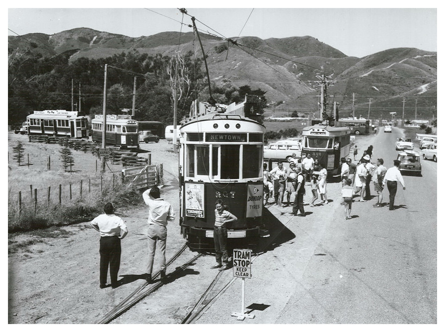 Tram Museum, Paekakariki, 1967This National Publicity Studios photograph, taken in 1967, shows old Wellington tram cars on display.